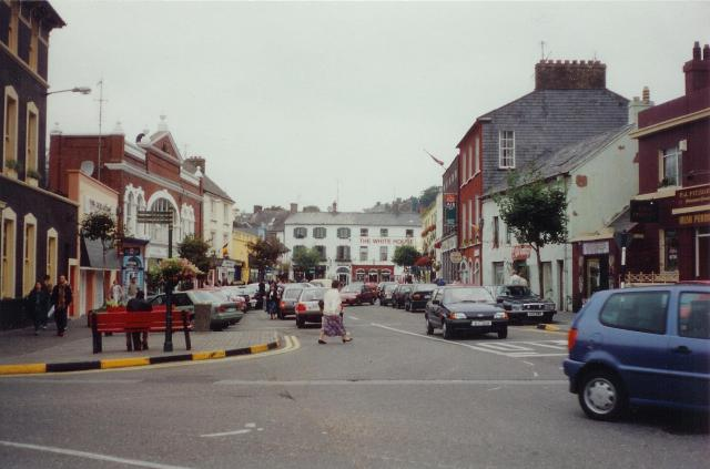 Kinsale town centre